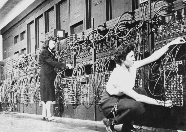 National Archives Identifier: 594262 Local Identifier: 306-PSE-79-120 Record Group 306: Records of the U.S. Information Agency, 1900 - 2003 Series: Master File Photographs of U.S. and Foreign Personalities, World Events, and American Economic, Social, and Cultural Life, compiled ca. 1953 - ca. 1994, documenting the period ca. 1860 - ca. 1994 Item: Photograph of World's First Computer, the Electronic Numerical Integrator and Calculator